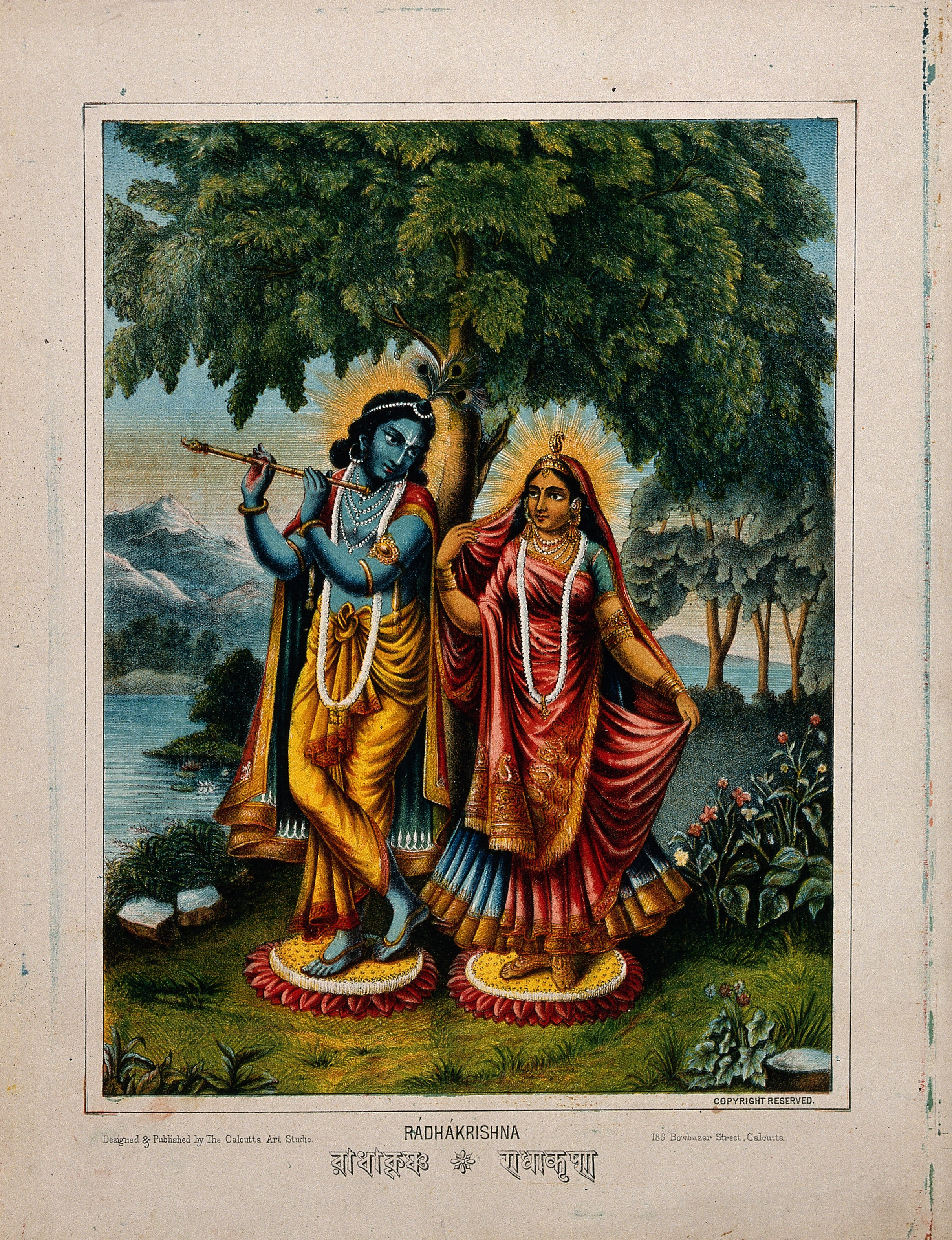 Krishna and Radha on separate lotus leaves. Chromolithograph. Iconographic Collections